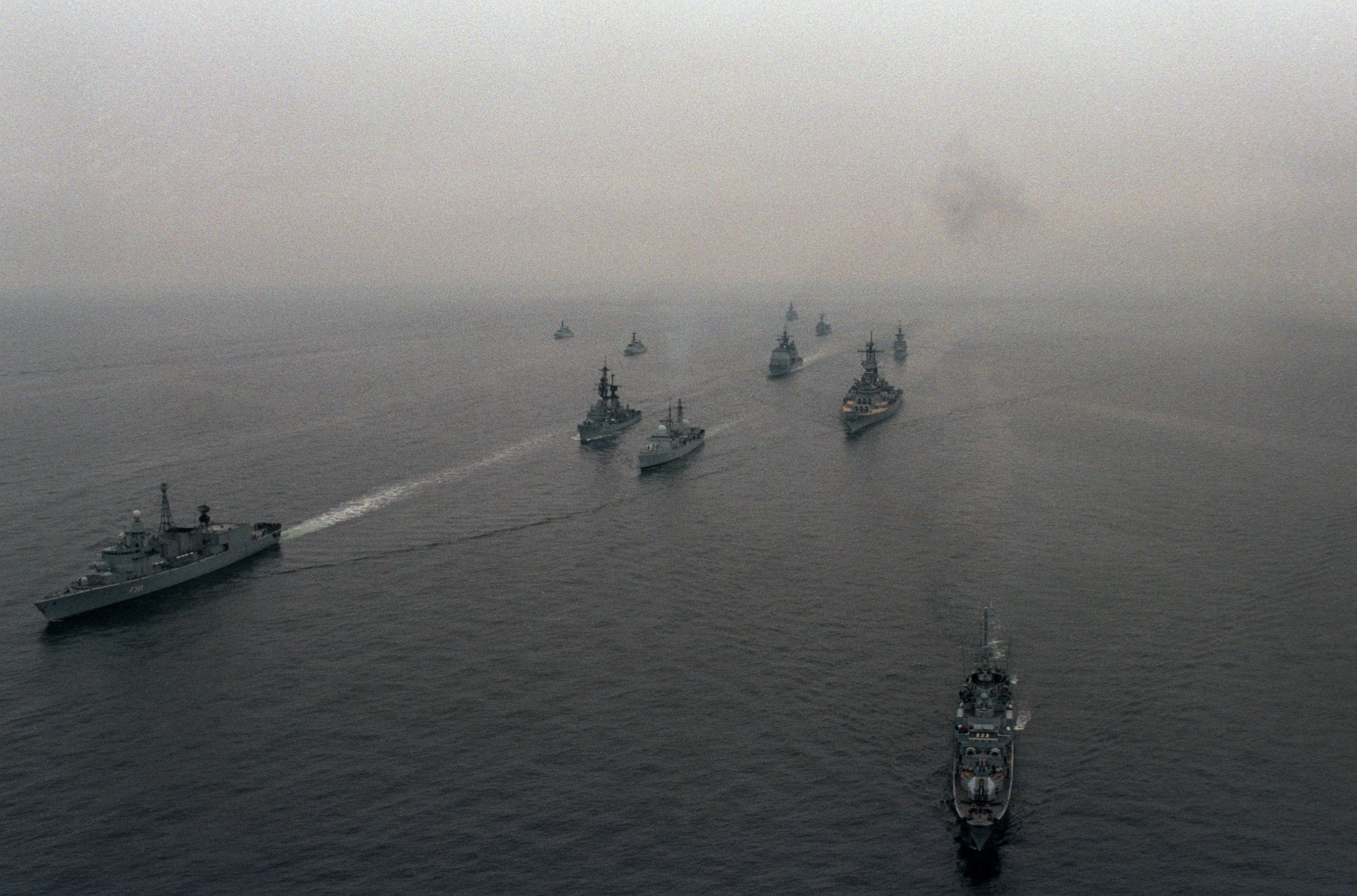 Ships of Task Group 100.1 participate in NATO Exercise BALTOPS'85 in October 1985. In the lead are the West German frigates Rheinland-Pfalz (F 209), left, and Augsburg (F 222), right, followed by the West German destroyer Mölders (D 186), the British destroyer HMS Liverpool (D 92), the U.S. Navy battleship USS Iowa (BB-61) and the guided missile cruiser USS Ticonderoga (CG-47).